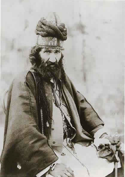 Antoin sevruguin's historical photographs